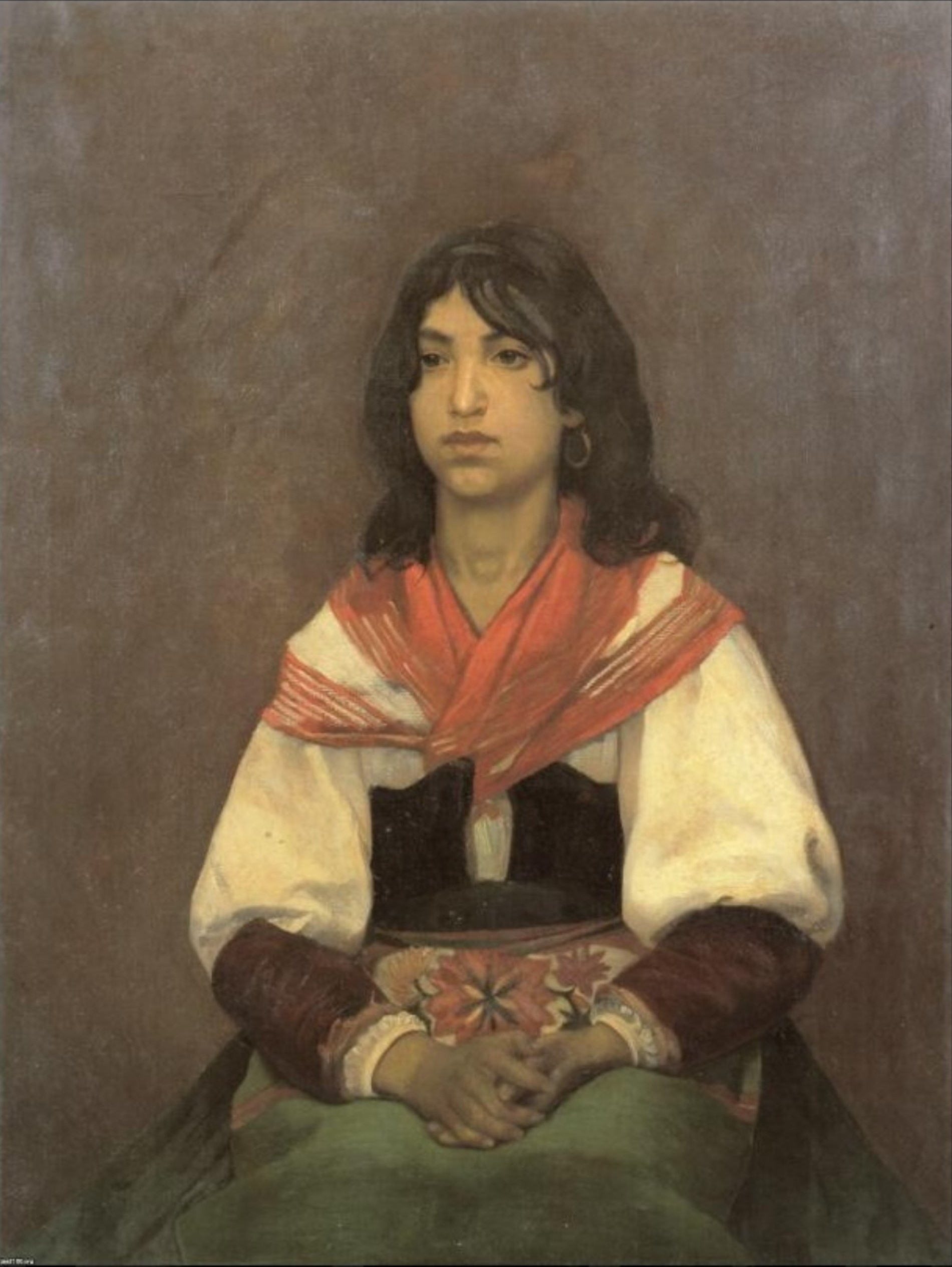 Bulgarian girl